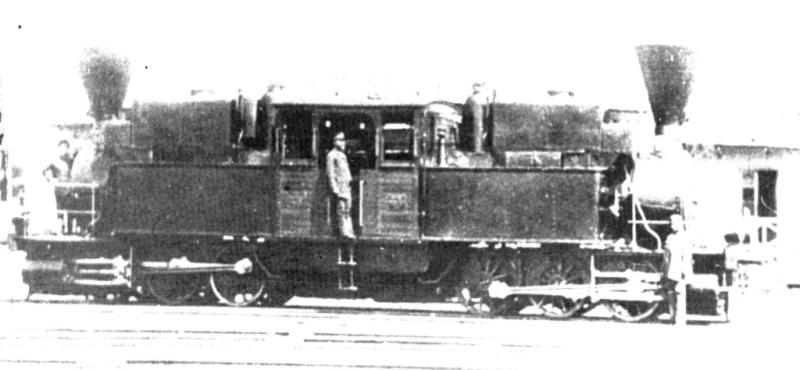 Russian tank locomotive F series (Fairlie system) on Suram Pass